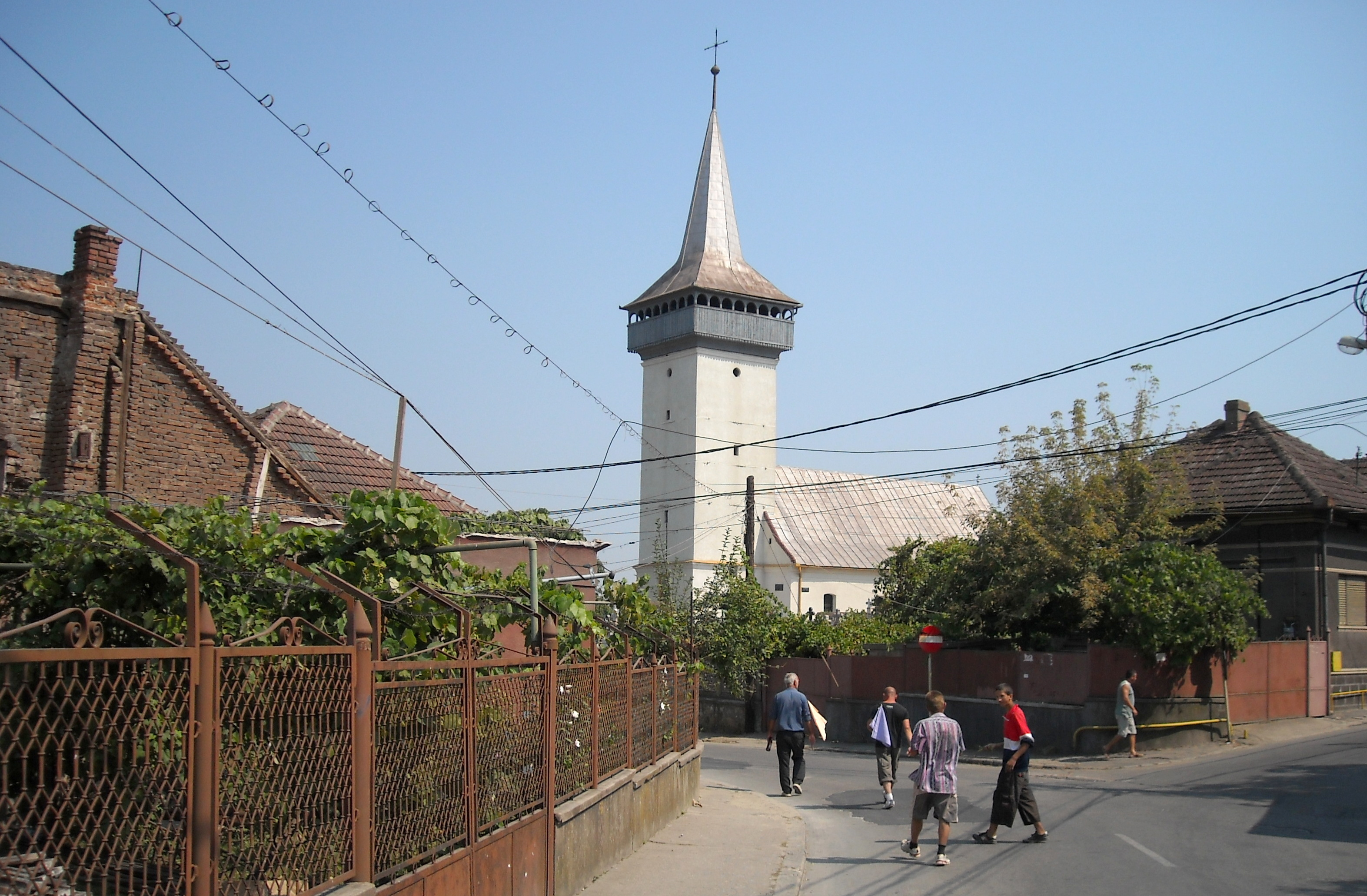 Transfiguration of Christ orthodox church, Hunedoara (Romania)